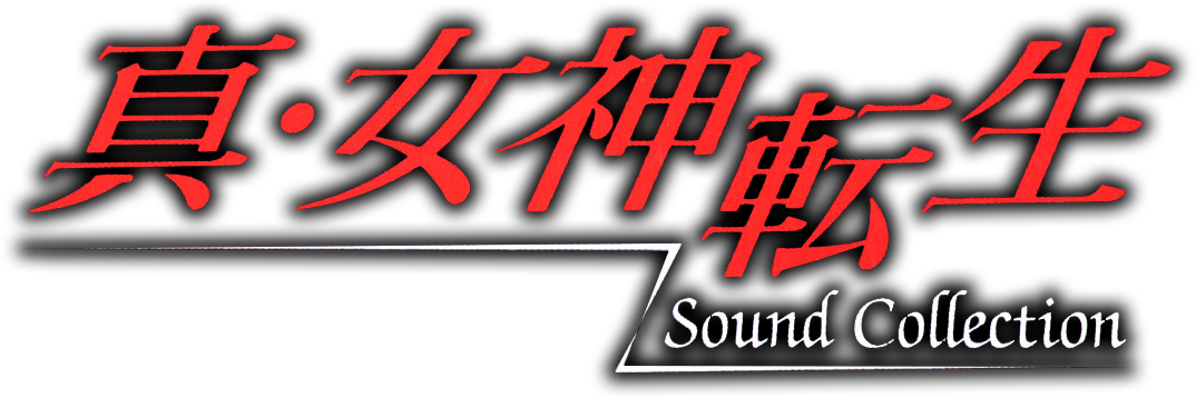 The music album Shin Megami Tensei Sound Collection's logotype